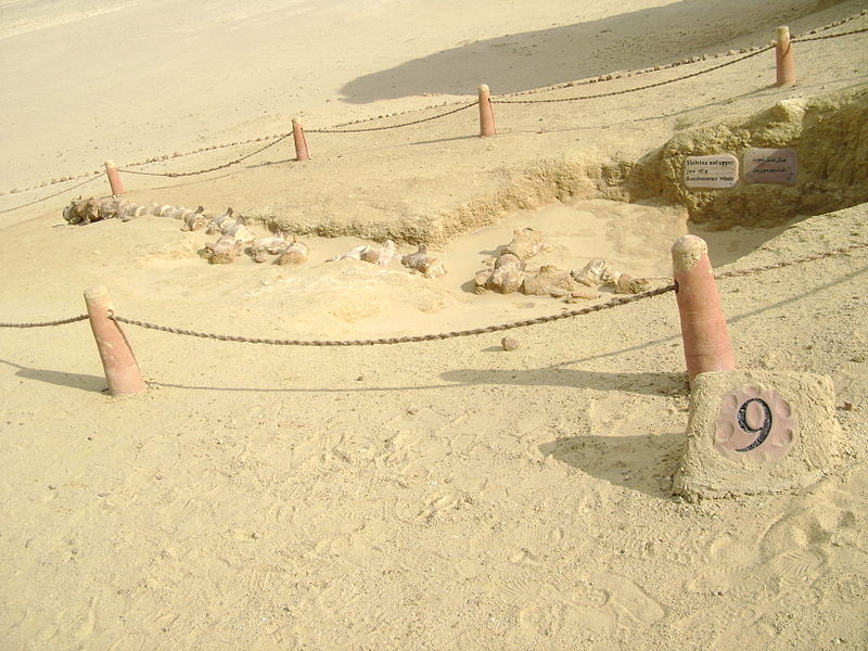 Basilosaurus fossil site in rayyan valley reserve.